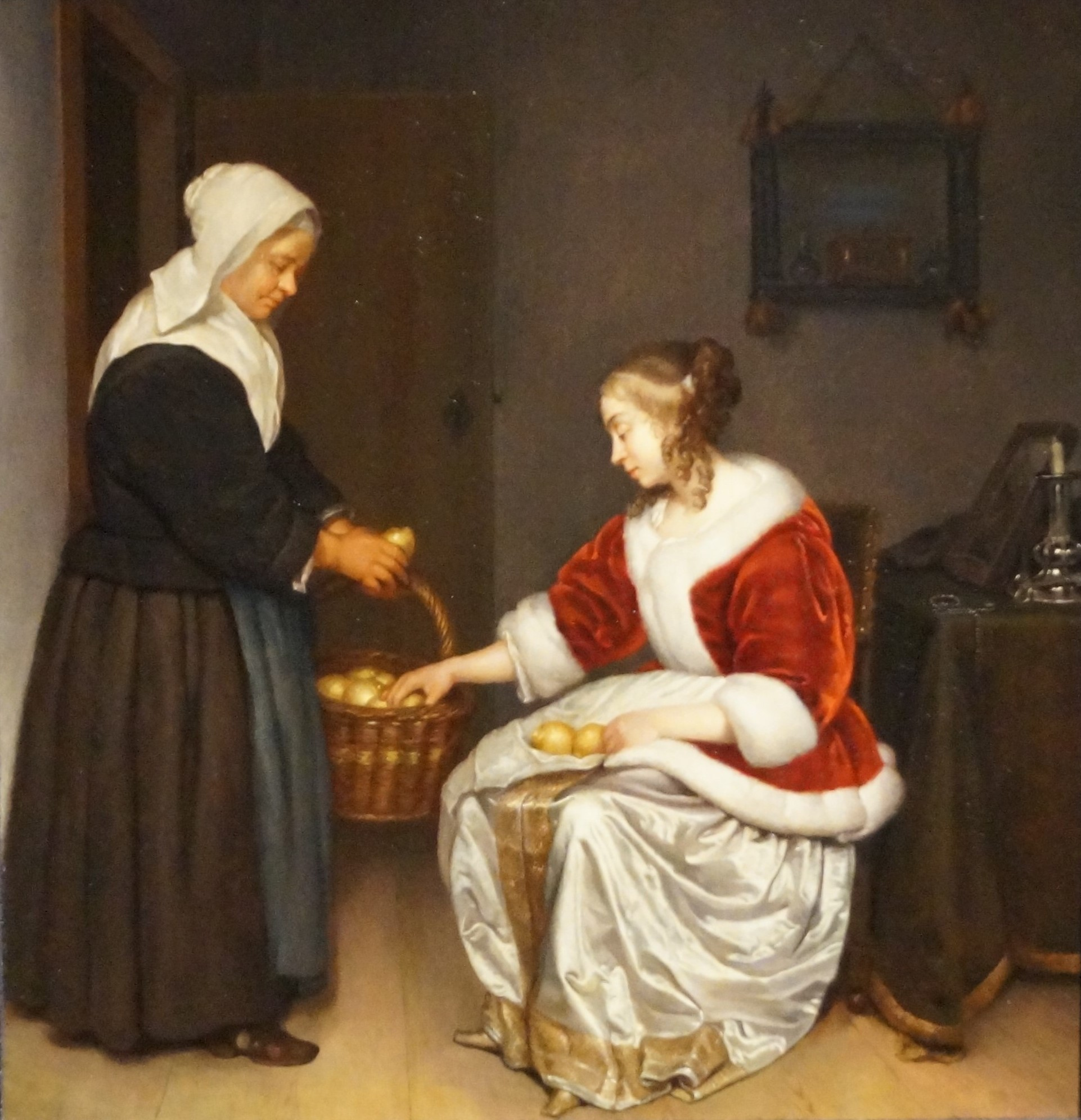 Two Women in an Interior with a Basket of Lemons (ca. 1664-1665) by Caspar Netscher (ca. 1639-1684), oil on panel. The Leiden Collection, New York, exhibited in Pushkin Museum, Moscow